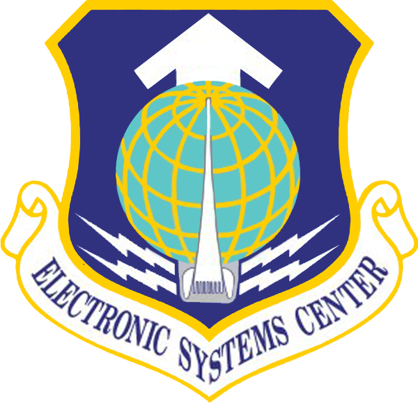 United States Air Force Electronic Systems Center emblem. Made with Photoshop.